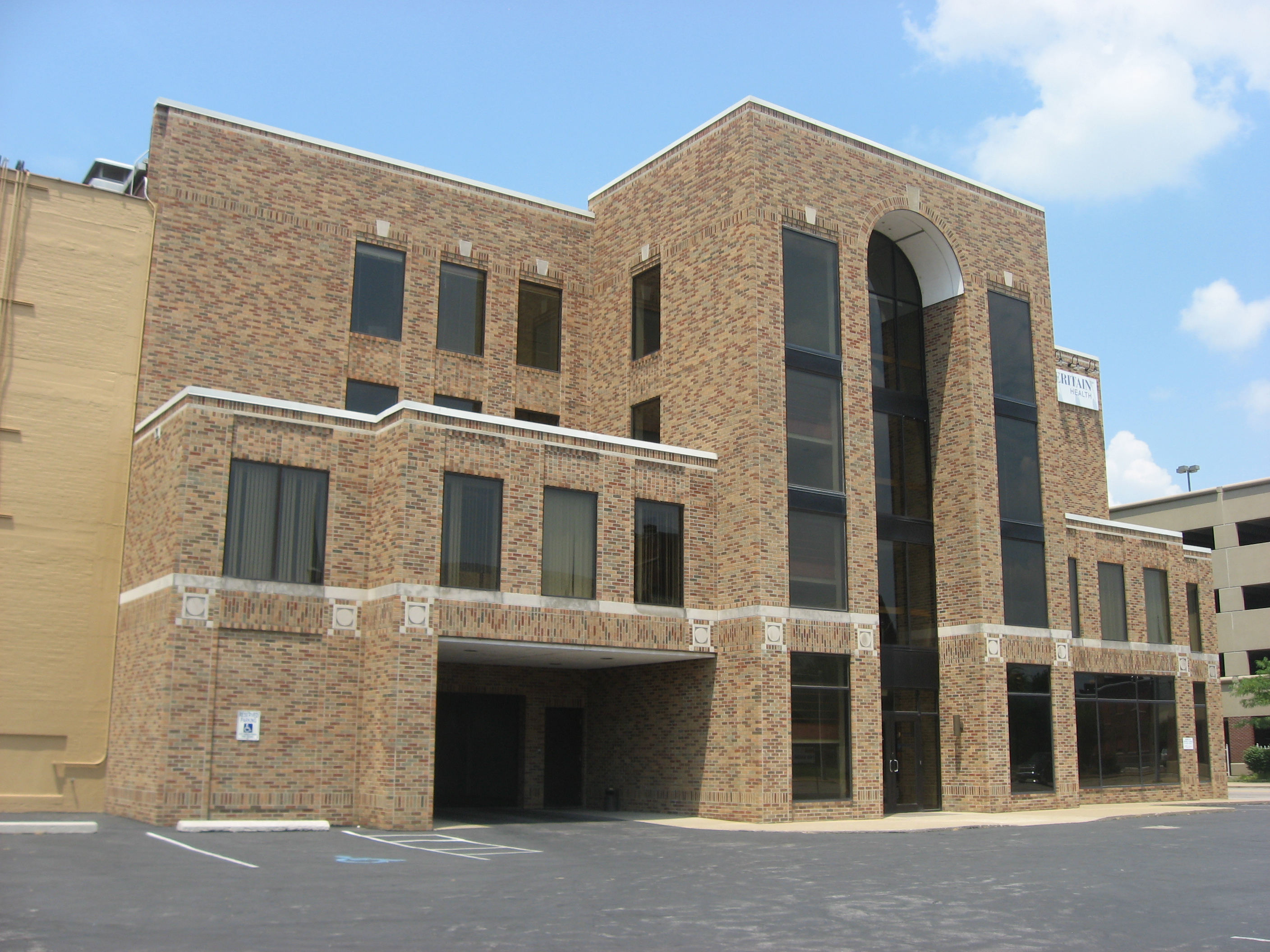 Southeastern side of the Auto Hotel Building, located at 111-115 SE. Third Street in Evansville, Indiana, United States. Built in 1929, it is listed on the National Register of Historic Places.